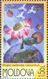 Stamp of Moldova